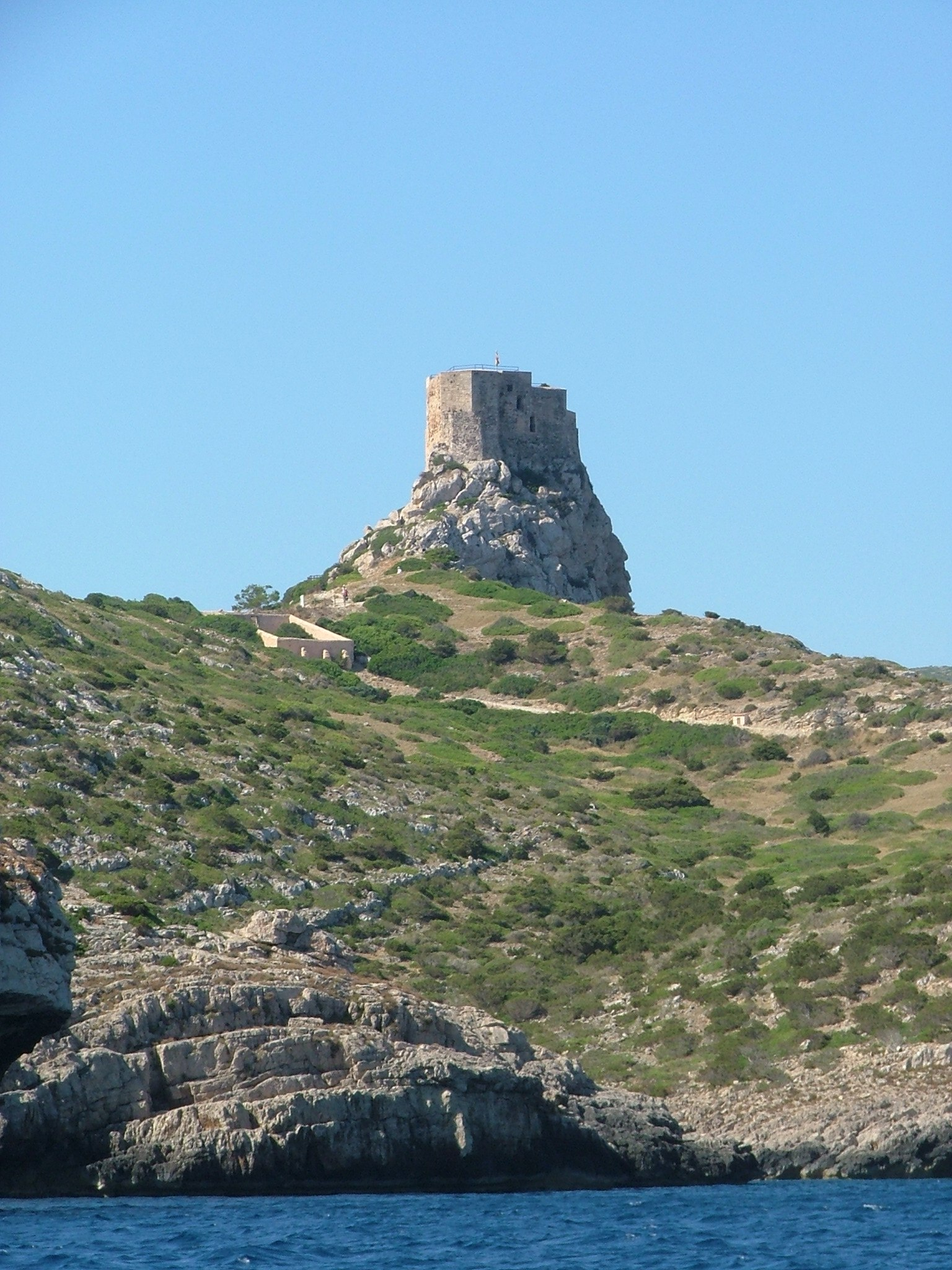 Castle of Cabrera, Balearic islands, Spain seen from N